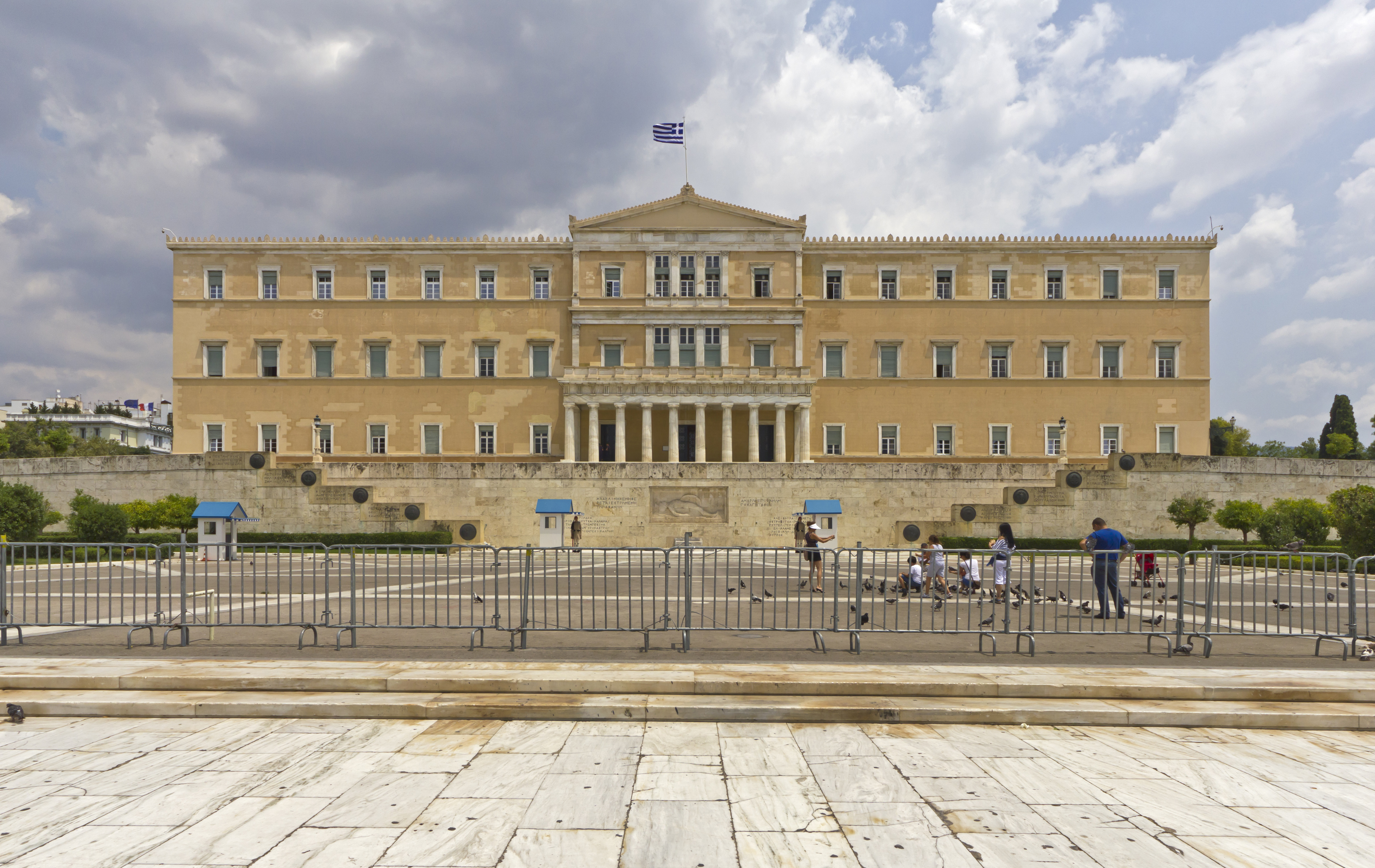 Building of the Greek Parliament in Athens (Attica, Greece)